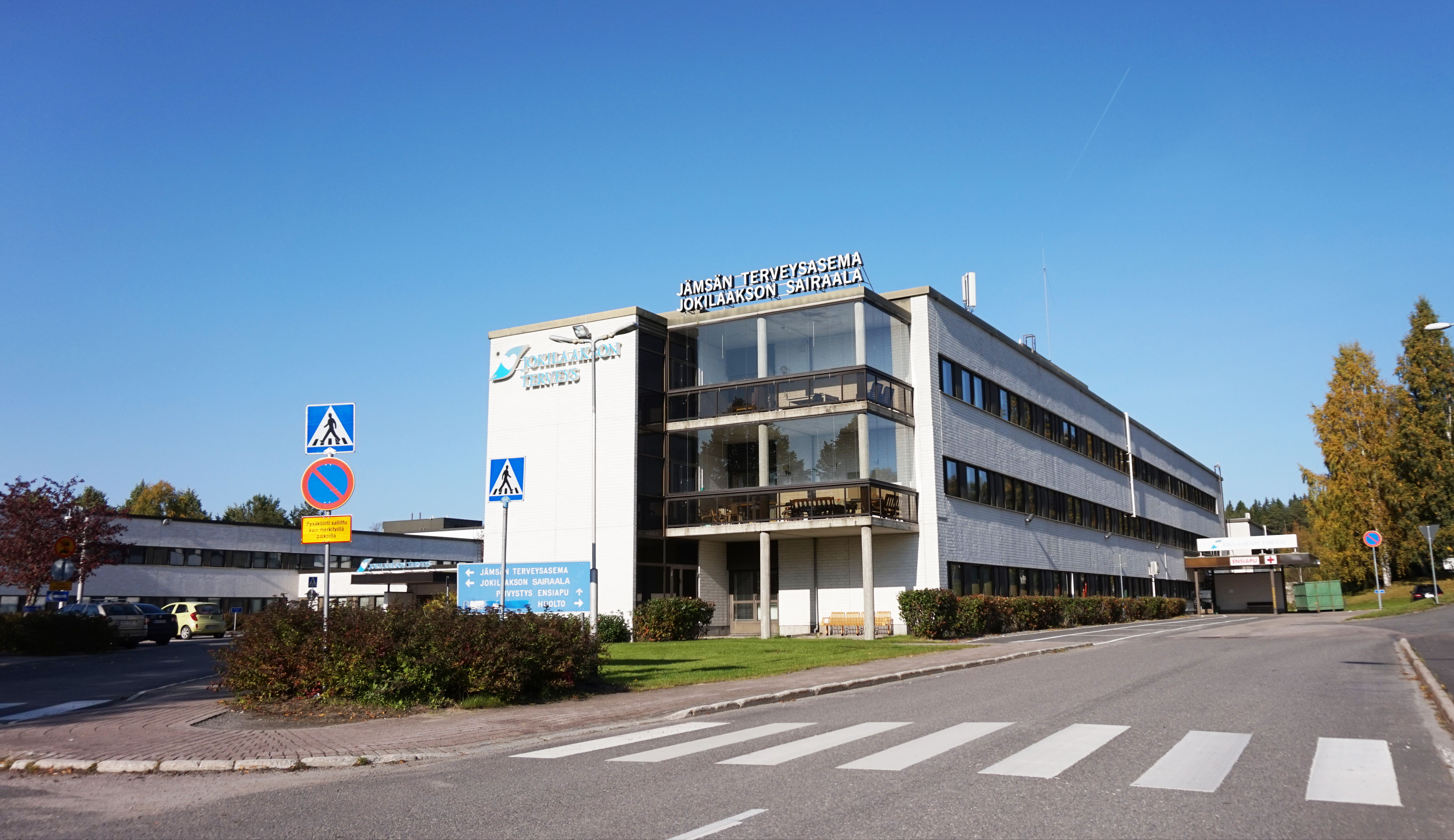 Jokilaakso hospital in Jämsä, Finland.This photograph was taken with a Sony ILCE-5000